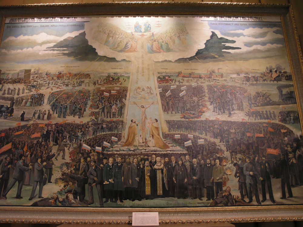 painting